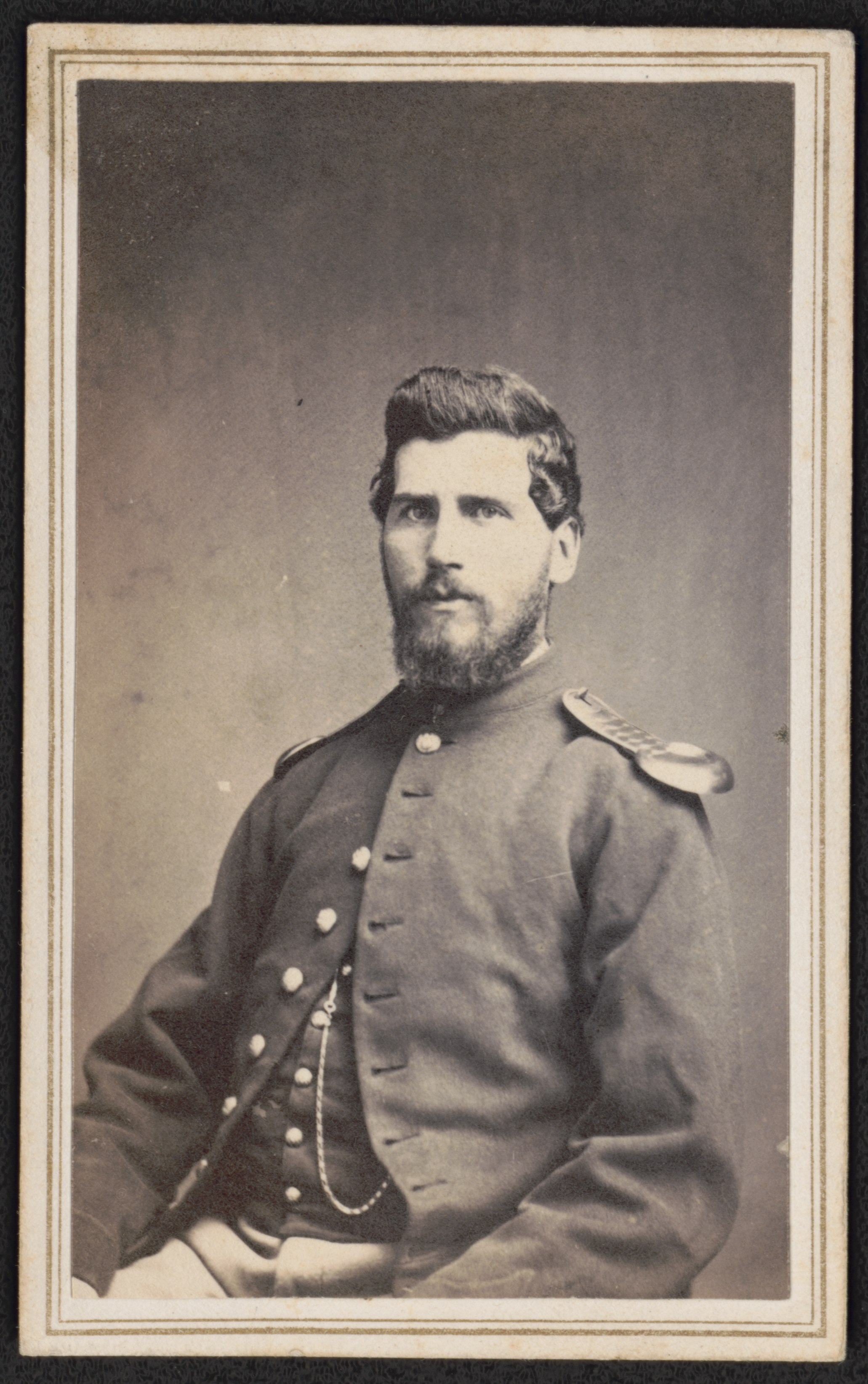 Title: Private Joseph N. Walls of Co. G, 4th Massachusetts Heavy Artillery Regiment in uniform Abstract/medium: 1 photograph : albumen print on card mount ; mount 11 x 6 cm (carte de visite format)